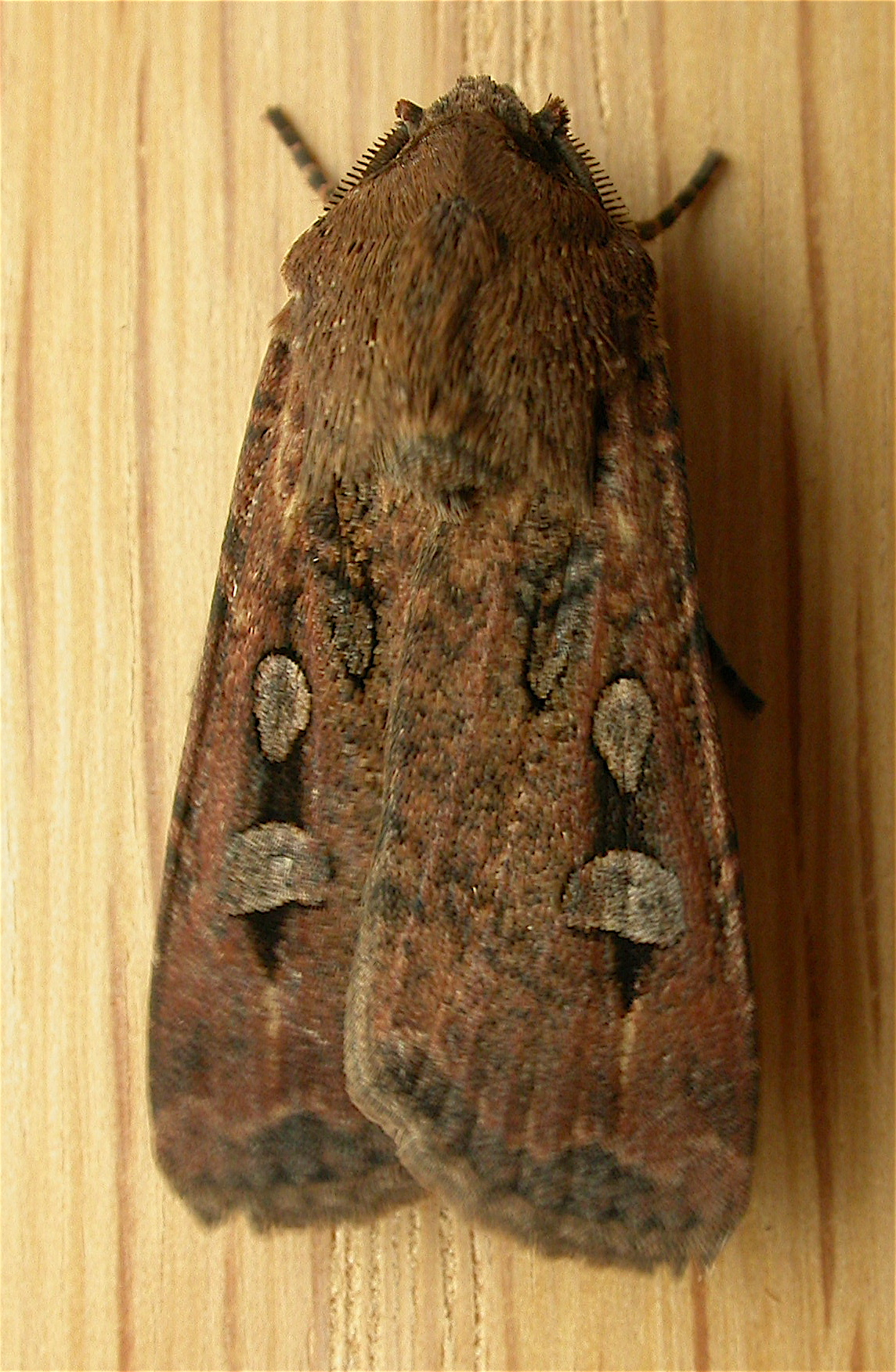 Agrotis infusa (Boisduval, 1832), to MV light, Aranda, ACT, 3/4 October 2008